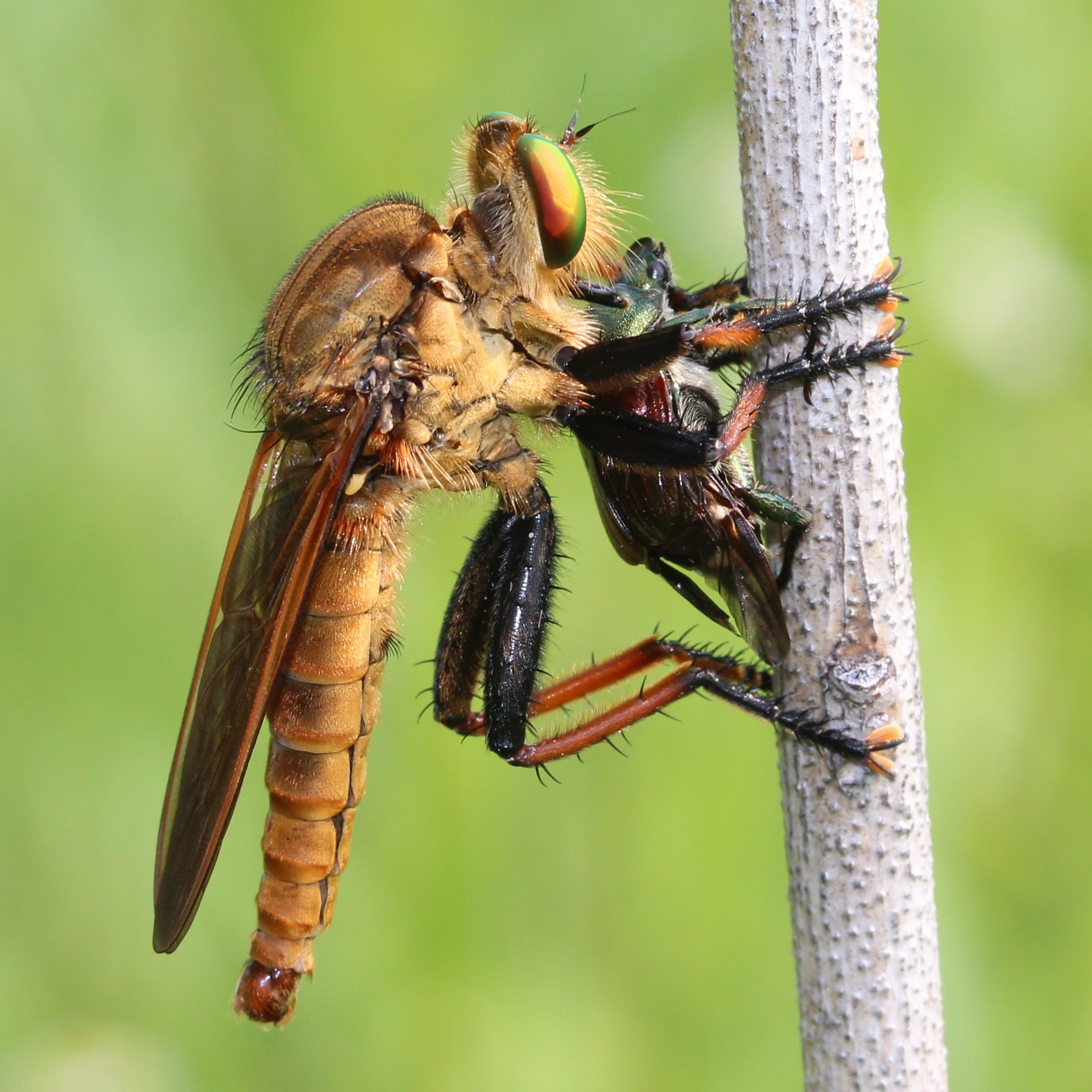 Cophinopoda chinensis captured insect